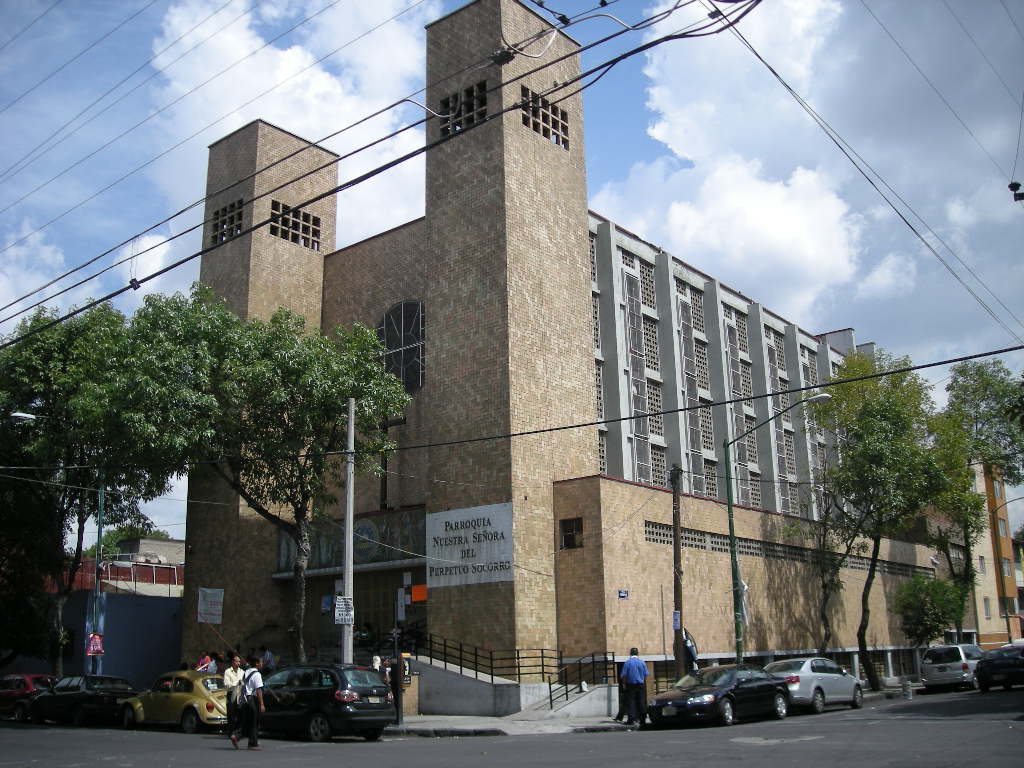 Parroquia Nuestra Señora del Perpetuo Socorro [Nuestra Señora del Perpetuo Socorro Parish] in Colonia Algarín, Mexico City